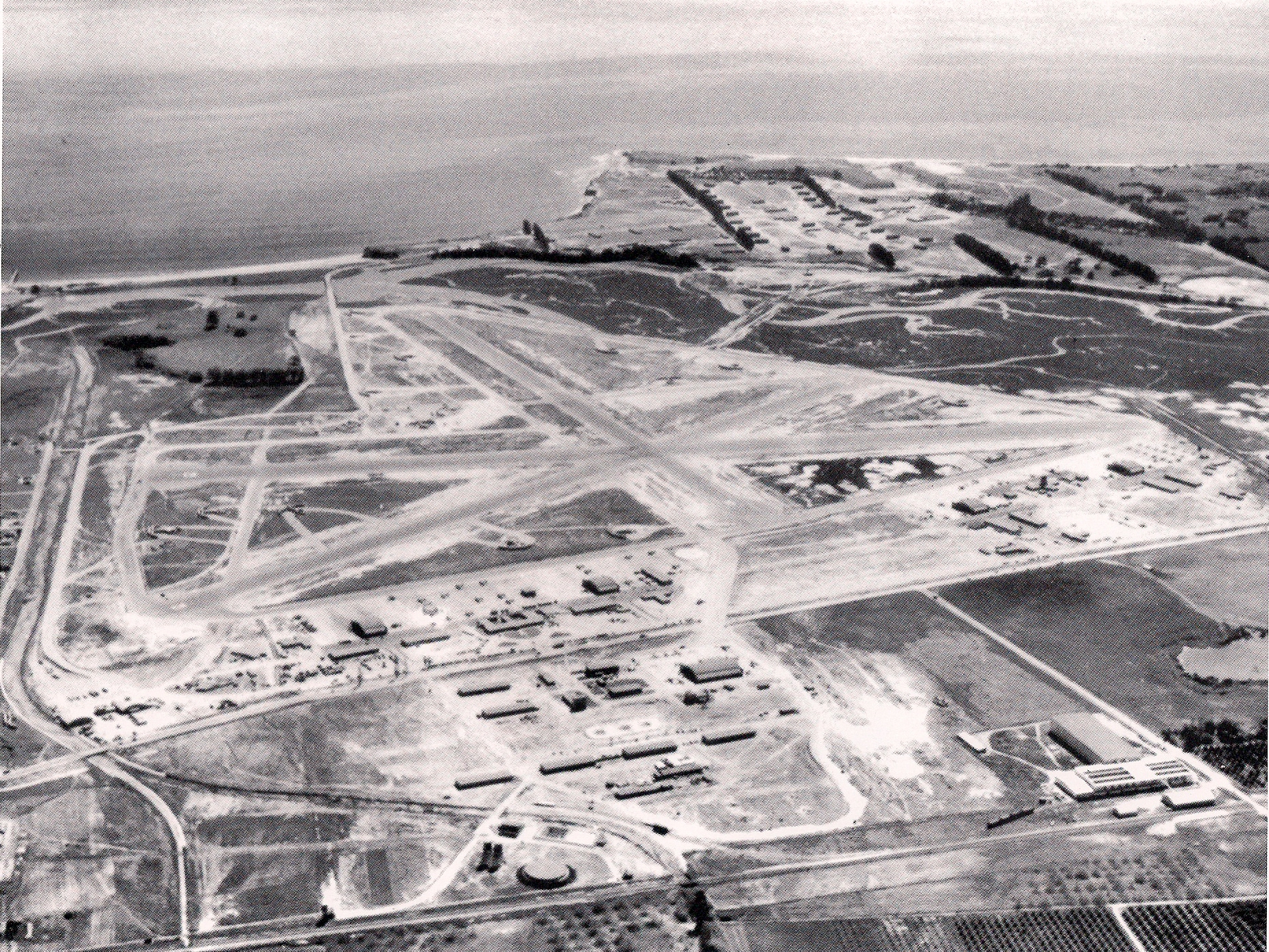 Overhead photo of Marine Corps Air Station Santa Barbara